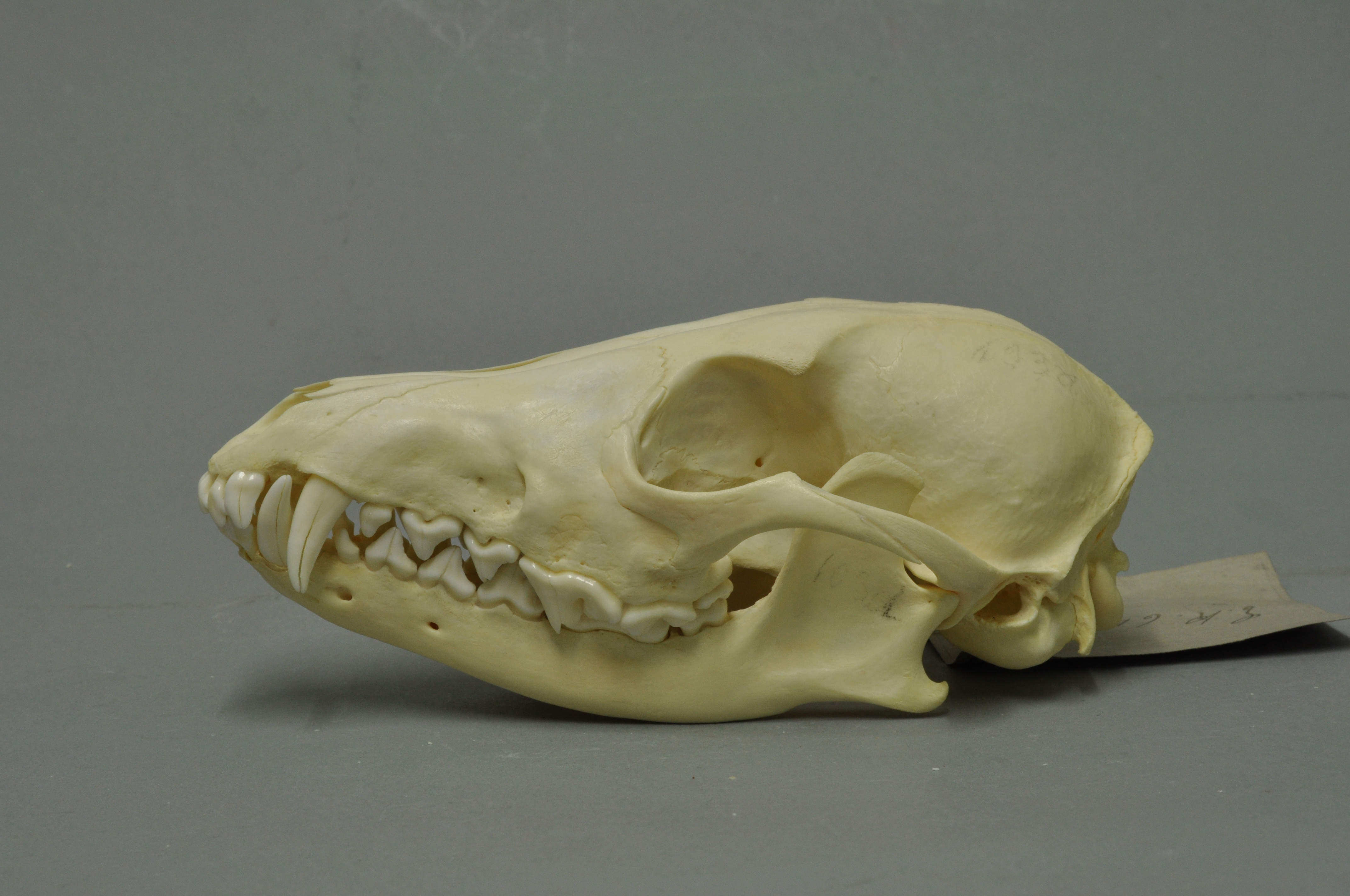 Black-backed jackal Canis mesomelas, skull, Coll. Museum Wiesbaden